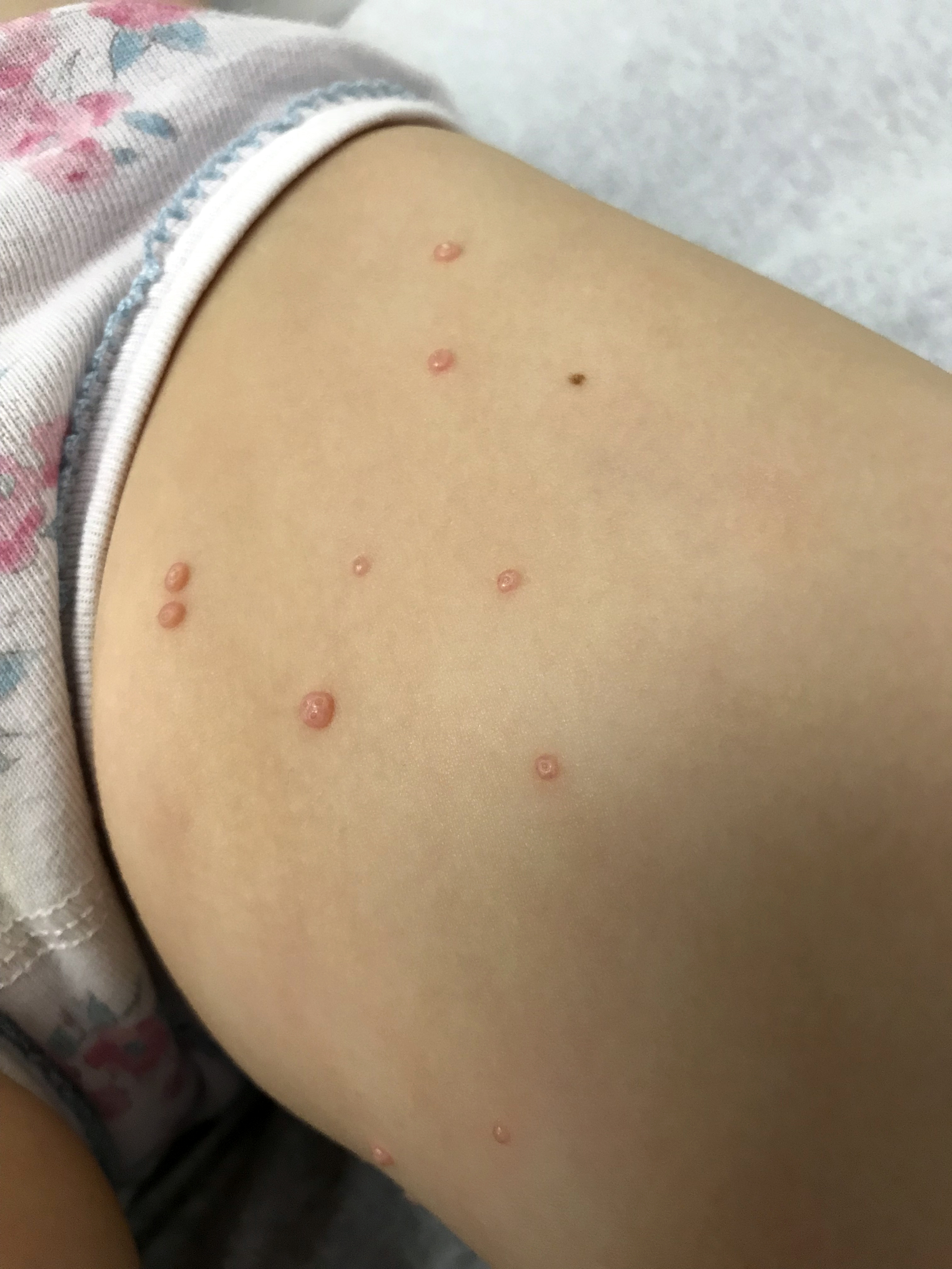 Mollusca contagiosa on a girl's thigh.